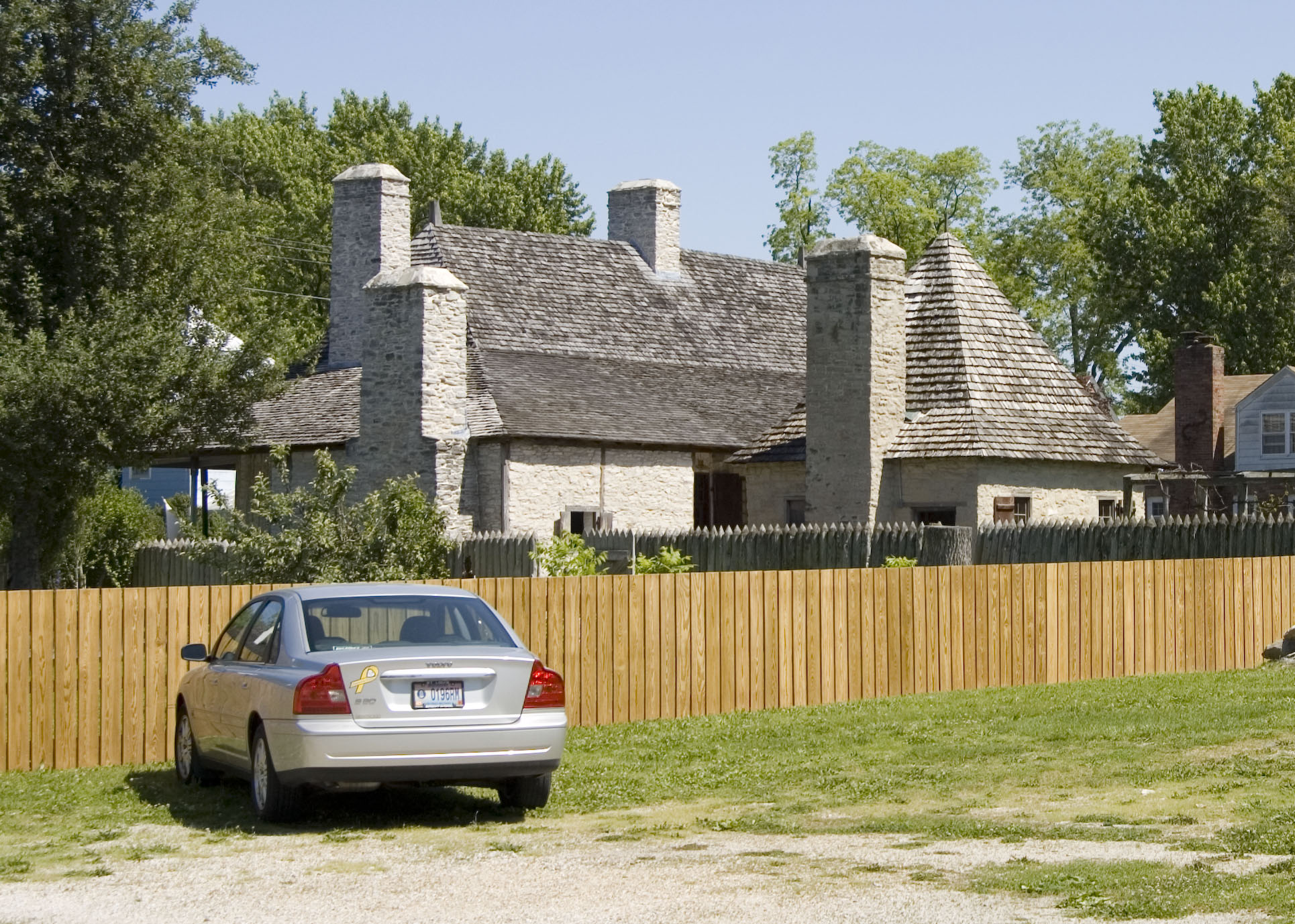 The Maison Bolduc is an example of poteaux-sur-solle construction. It is located in Ste. Geneviève, Missouri)